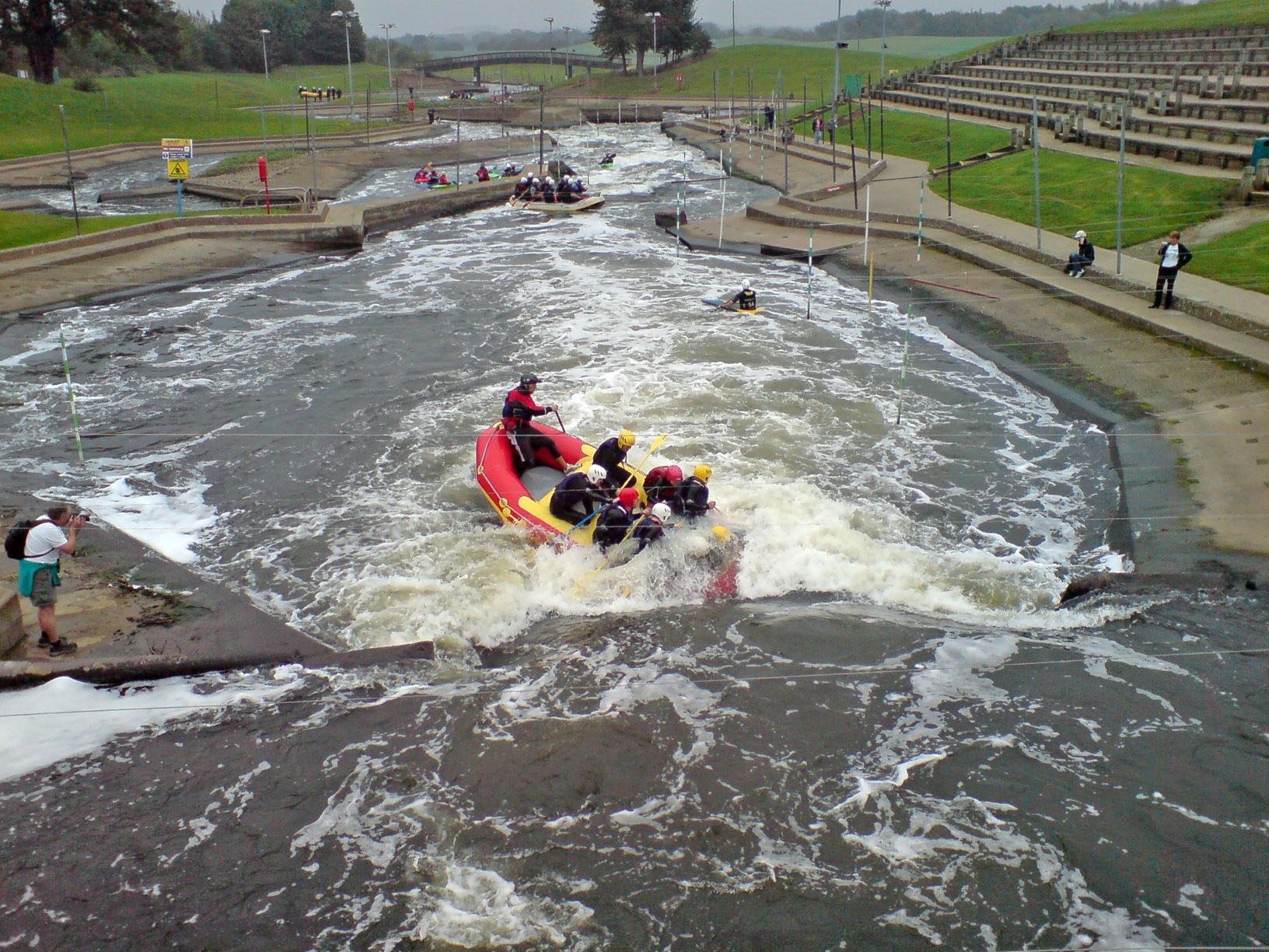 Holme Pierrepont National Watersports Centre, Author: Jamsta